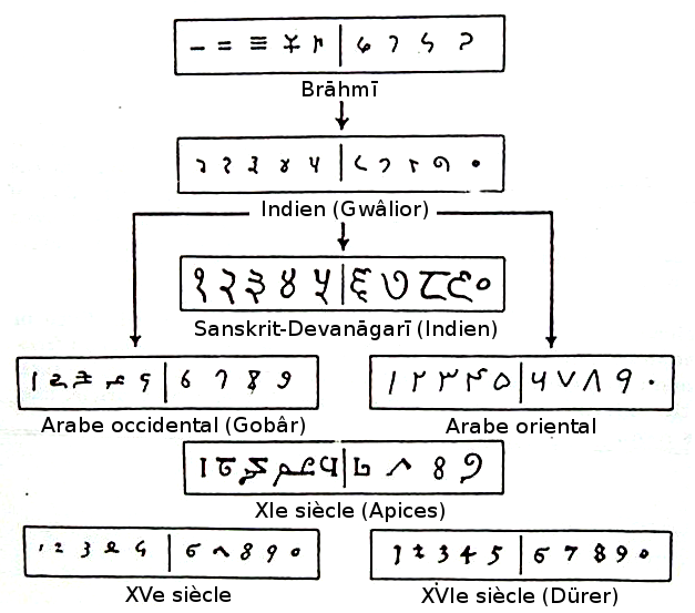 The Brahmi numeral system and its descendants